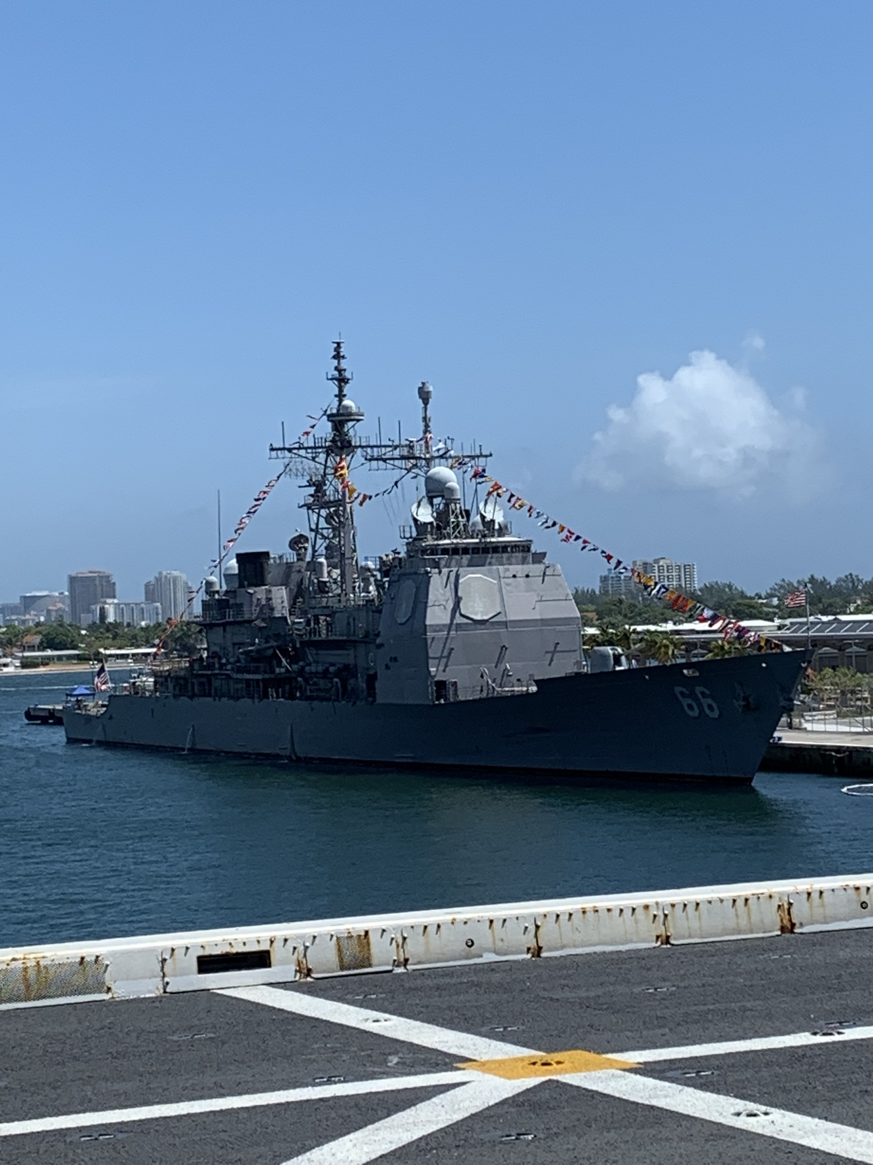 Uss Hue City at Fort Lauderdale Fl doing Fleet week 2019